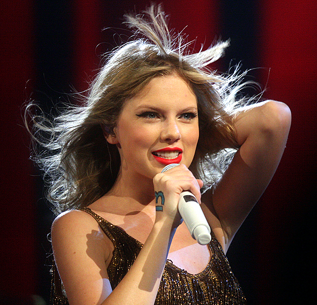 Taylor Swift - Speak Now Tour Hots Sydney, Australia 2012.